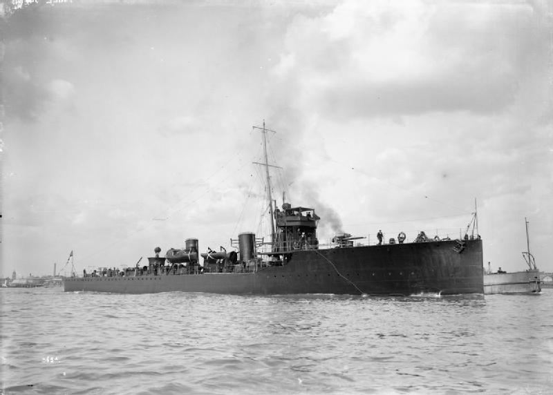 Photograph of British destroyer HMS Ariel.